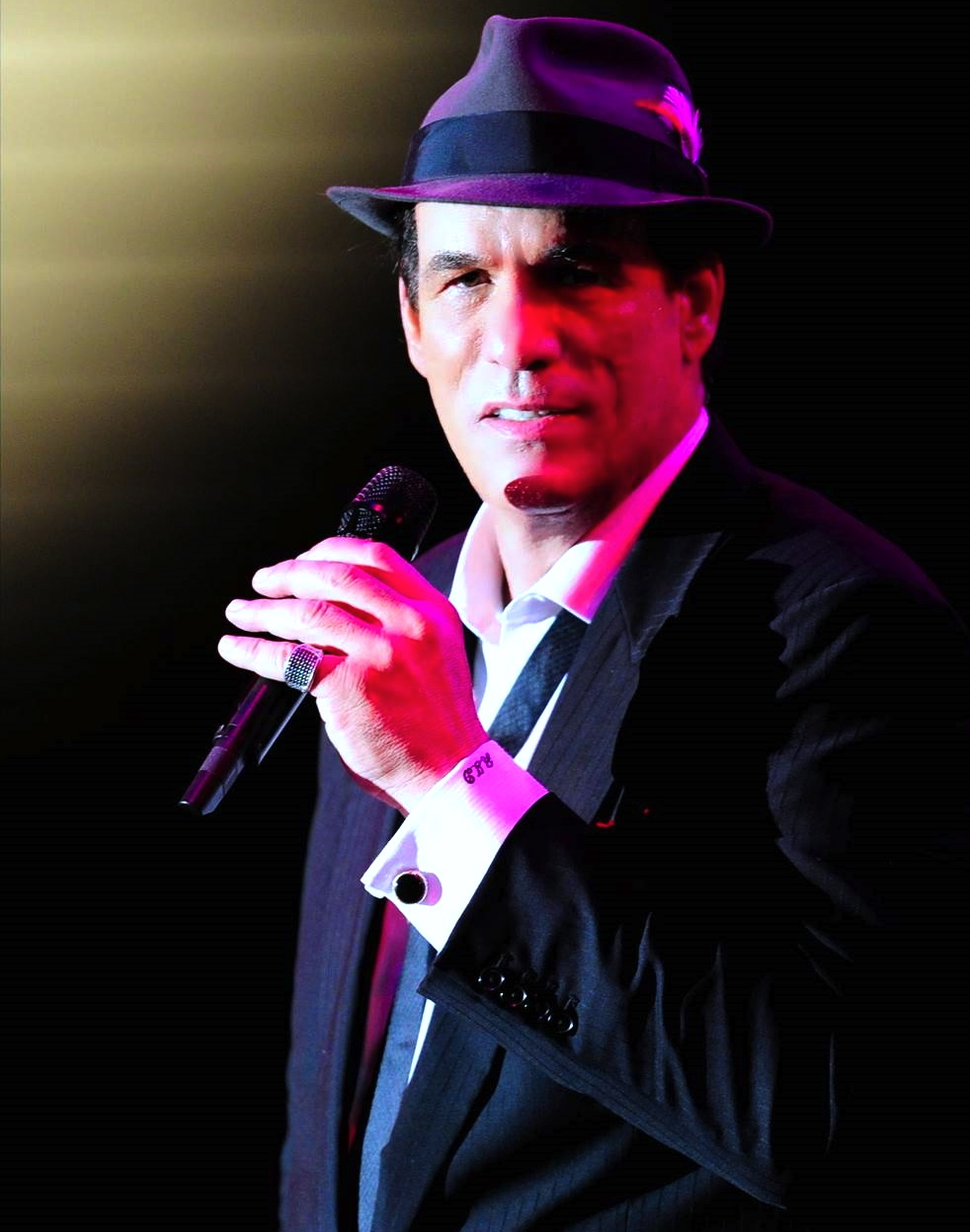 This is a photograph of singer/actor Robert Davi at a live performance taken by Nancy Knapp in 2013.